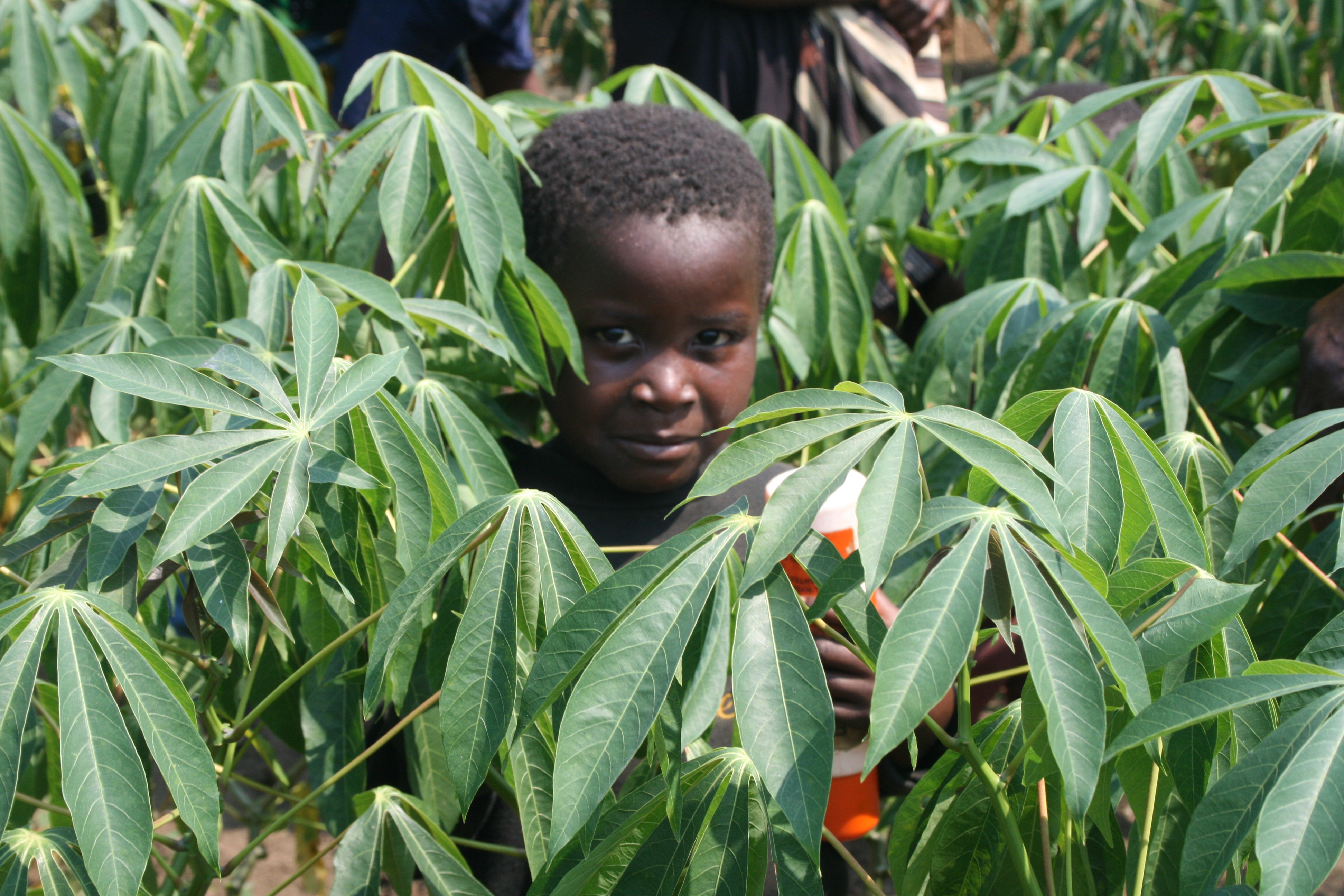 This young boy stands amid a thriving cassava field in the Democratic Republic of Congo. This field includes several disease resistant varieties of the country’s staple food.